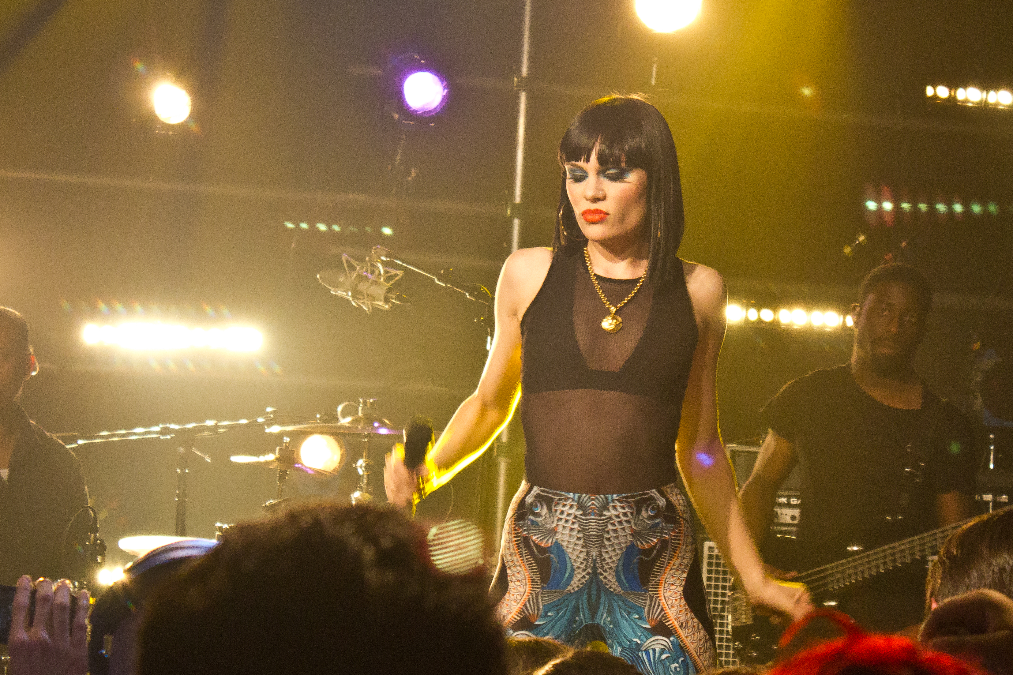 Jessie J live from NYC.